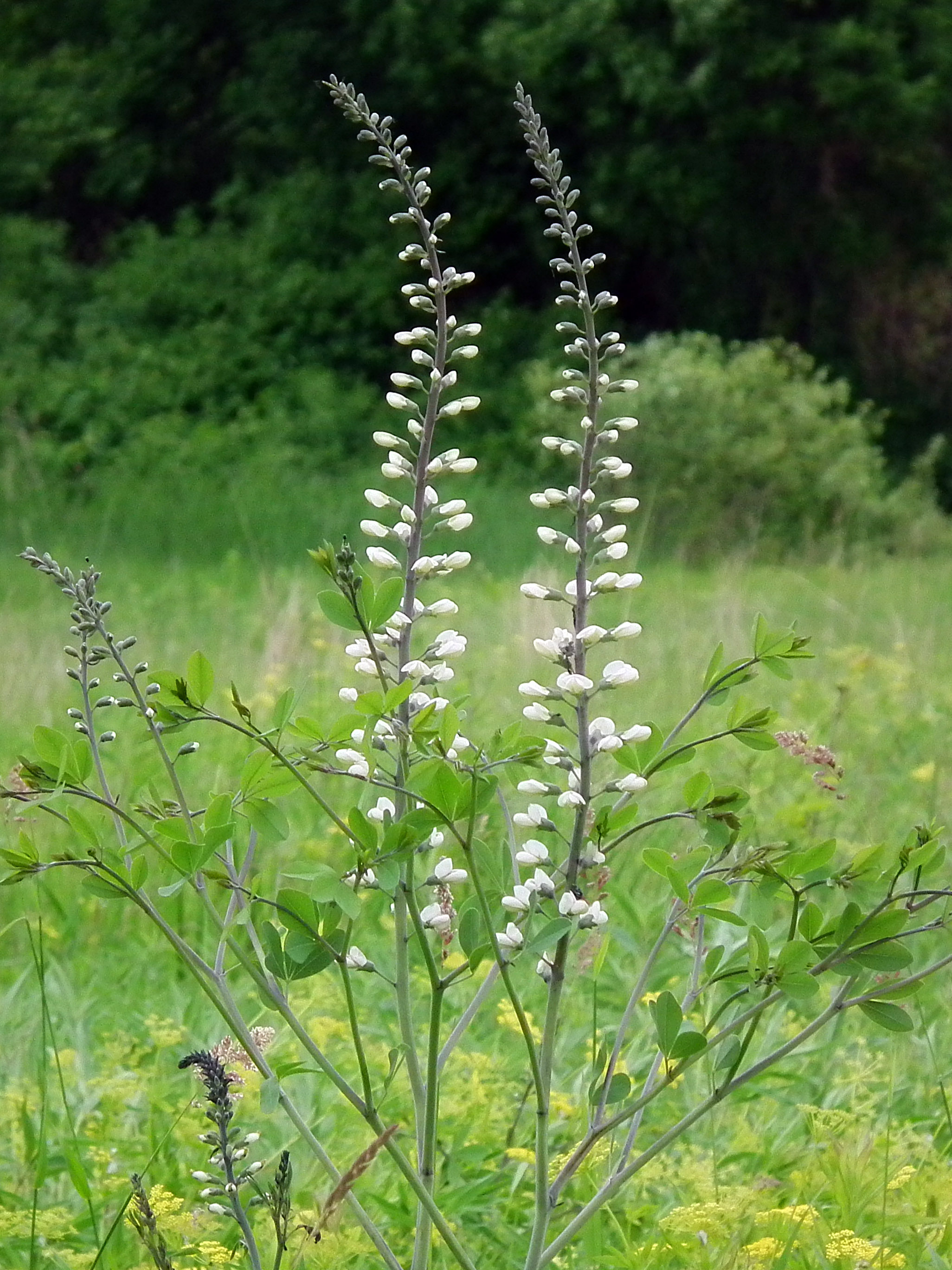 White Wild Indigo (Baptisia alba var. macrophylla, syn. Baptisia leucantha) in a restored tallgrass prairie habitat at the Minnesota Landscape Arboretum, Chaska, Minnesota, USA.